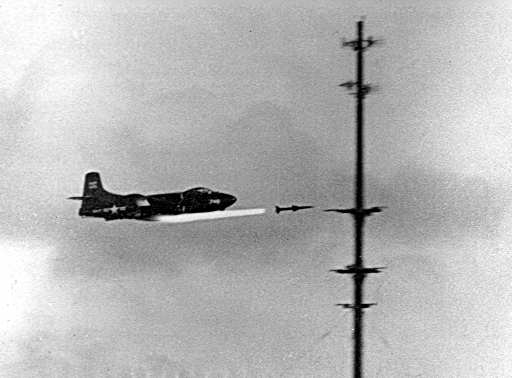 A U.S. Navy Douglas F3D-1 Skyknight (BuNo 123748) launches an AAM-N-2 Sparrow missile at the Naval Air Weapons Testing Center, Point Mugu, California (USA), in 1950.